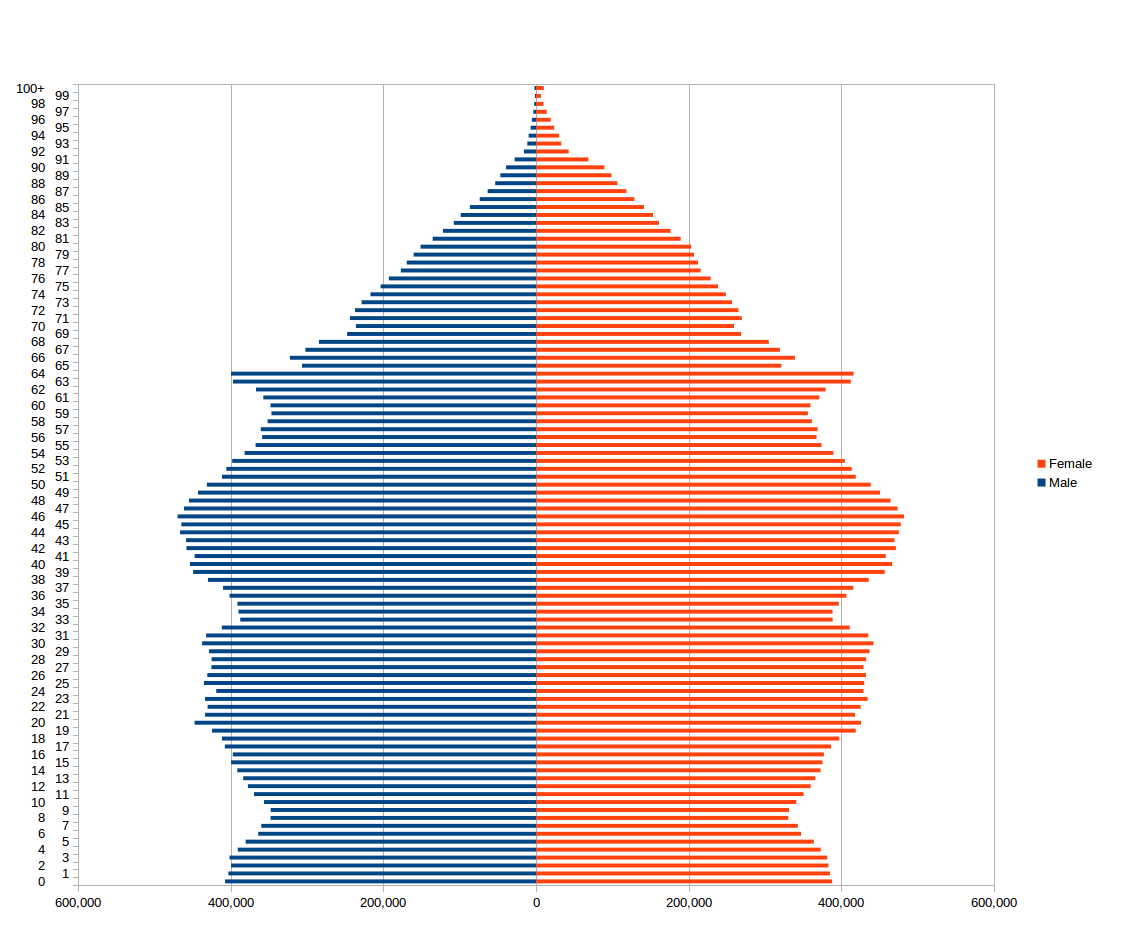 Population pyramid for the United Kingdom as at the 2011 census.